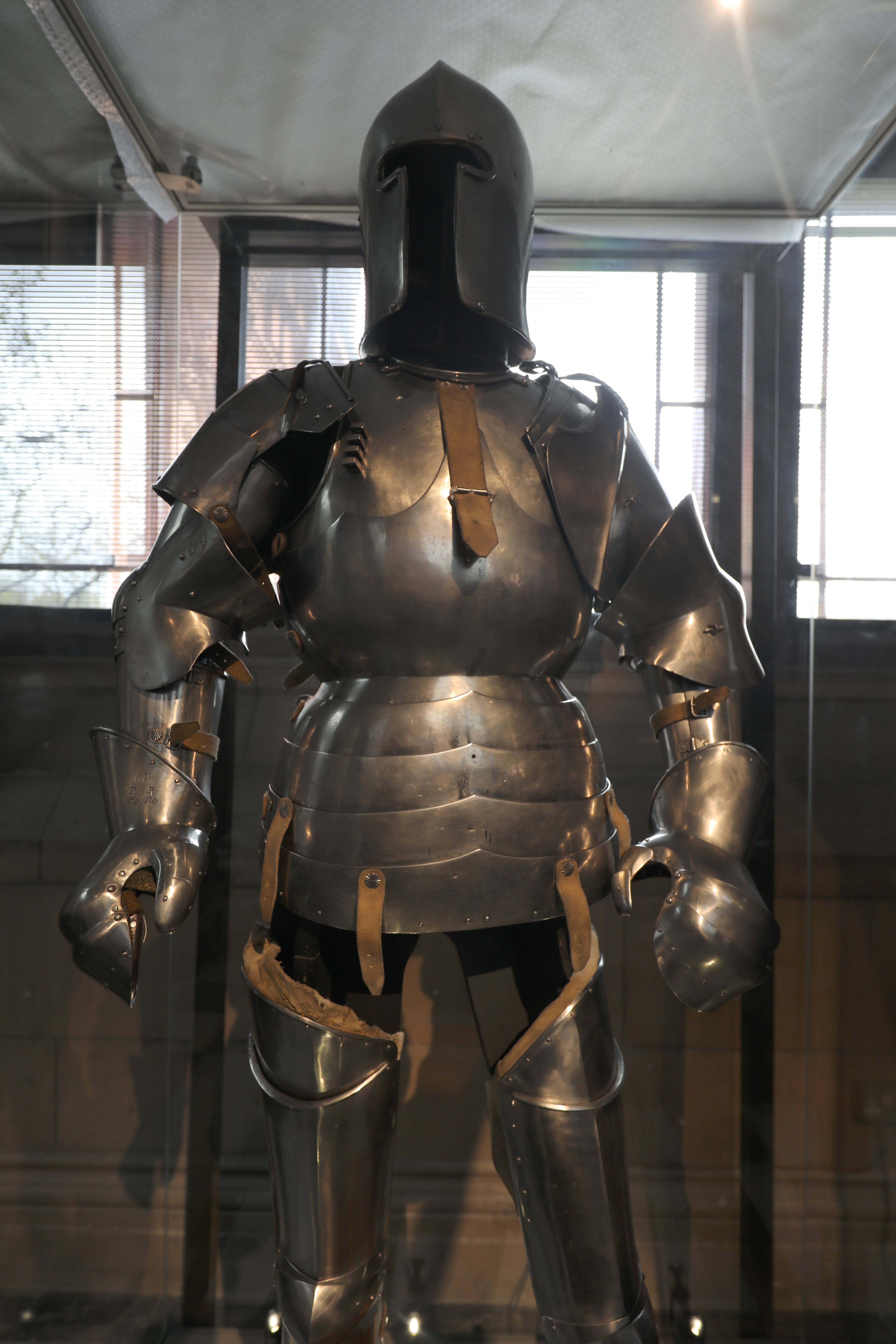 Photo of the upper section of the Avant suit of armour